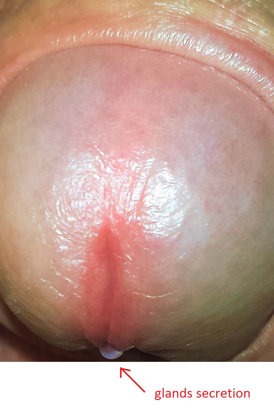 Photo of urethral gland showing secretion.